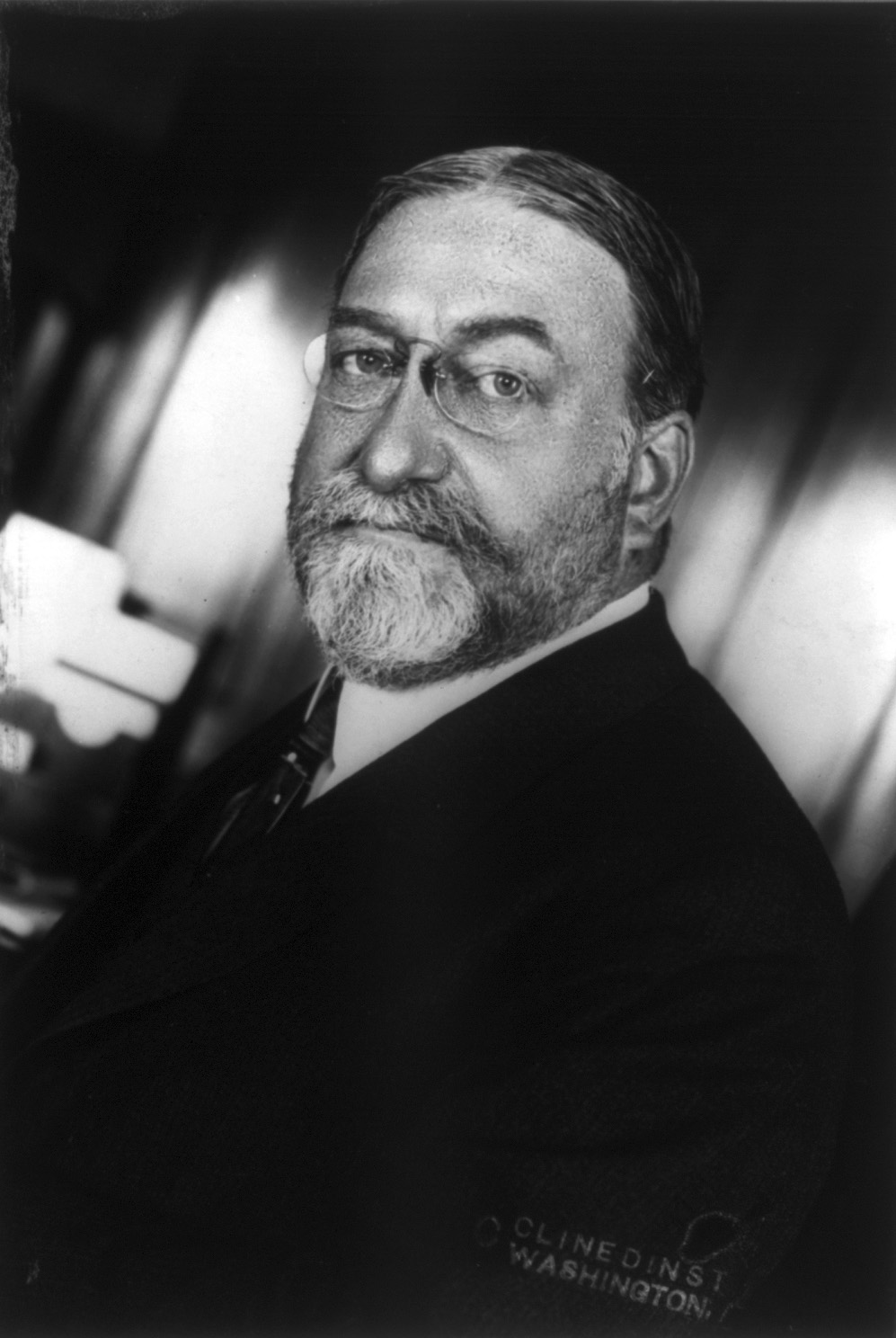 American jurist John Bassett Moore